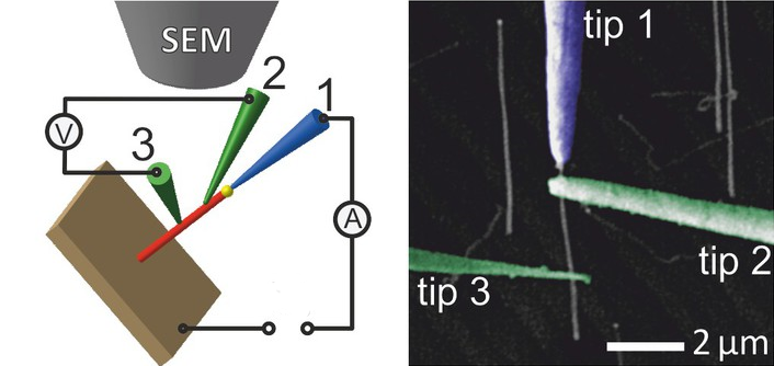 Left: Schematic of a four-point measurement on a nanowire with three tips contacting the nanowire. Right: SEM image of a freestanding nanowire contacted by three tips. The STM tips act like the test leads of a multimeter, however, contacting objects like the nanowire at the nanoscale.